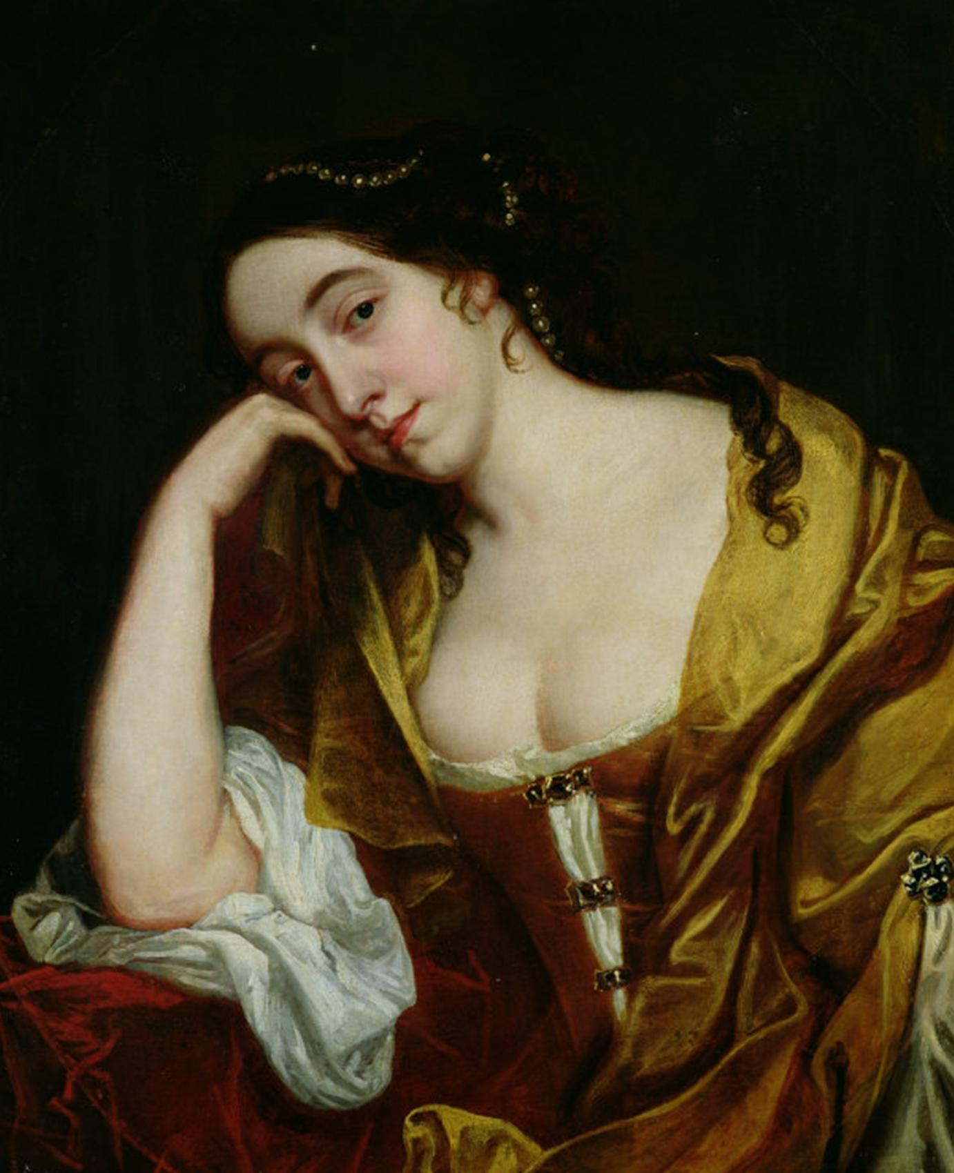 Melancholy